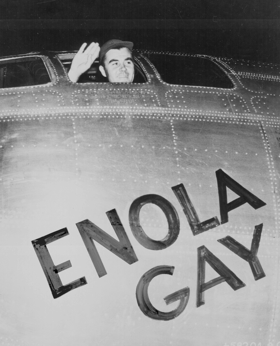 Colonel Paul Tibbets, pilot of the Enola Gay, waving from its cockpit. Photograph taken by soldier Armen Shamlian of the United States Army Air Forces (now the United States Air Force) in August, 1945 and now in custody of the US's National Archives and Records Administration. (NWDNS-208-LU-13H-5) The image is in the public domain, as with most US federal government documents.